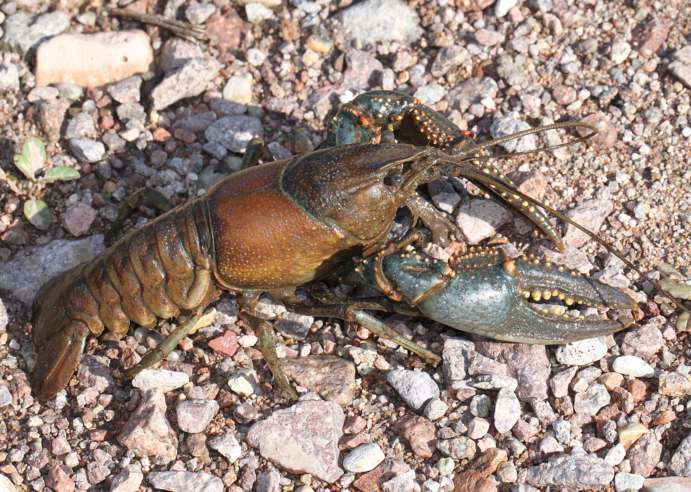 "Bugs"